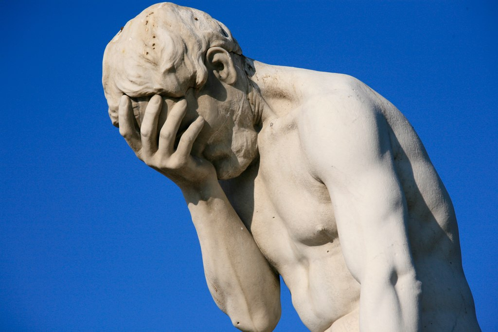 Caïn venant de tuer son frère Abel, by Henri Vidal in Tuileries Garden in Paris, France